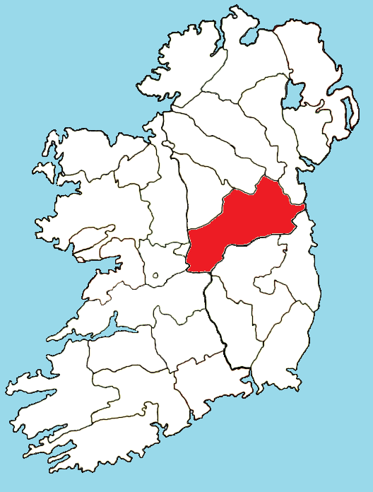 Diocese map